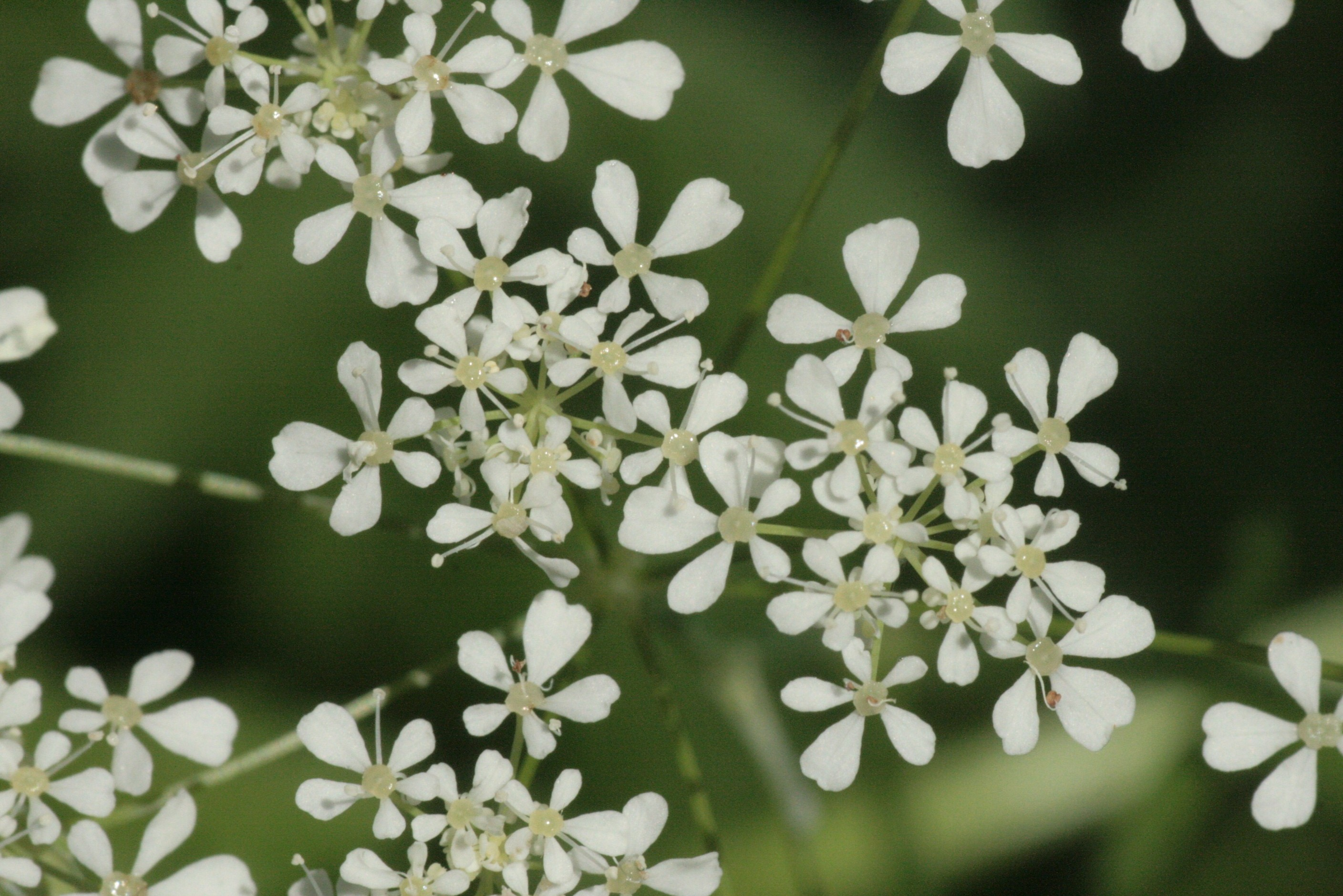 Anthriscus nitida, Anthriscus nitidus